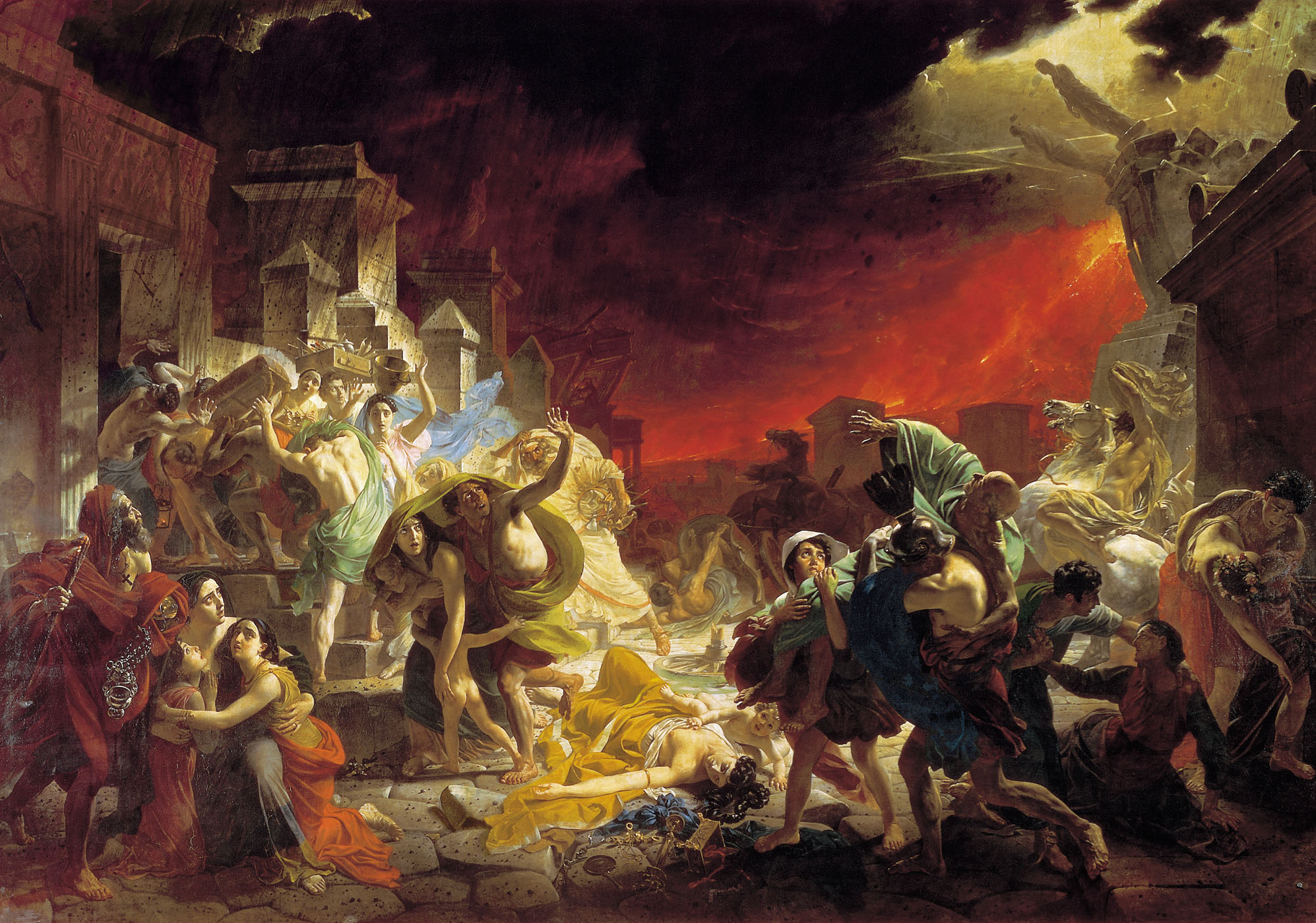 The Last Day of Pompeii, 1830-1833. Oil on canvas. 456.5 x 651 cm. The State Russian Museum, St. Petersburg, Russia